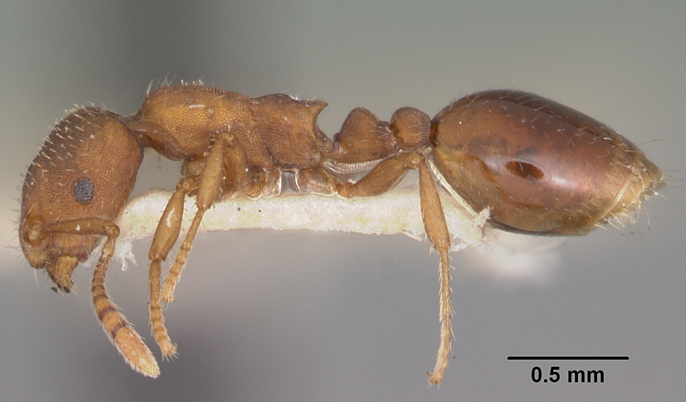 Profile view of ant Formicoxenus diversipilosus specimen casent0003227.